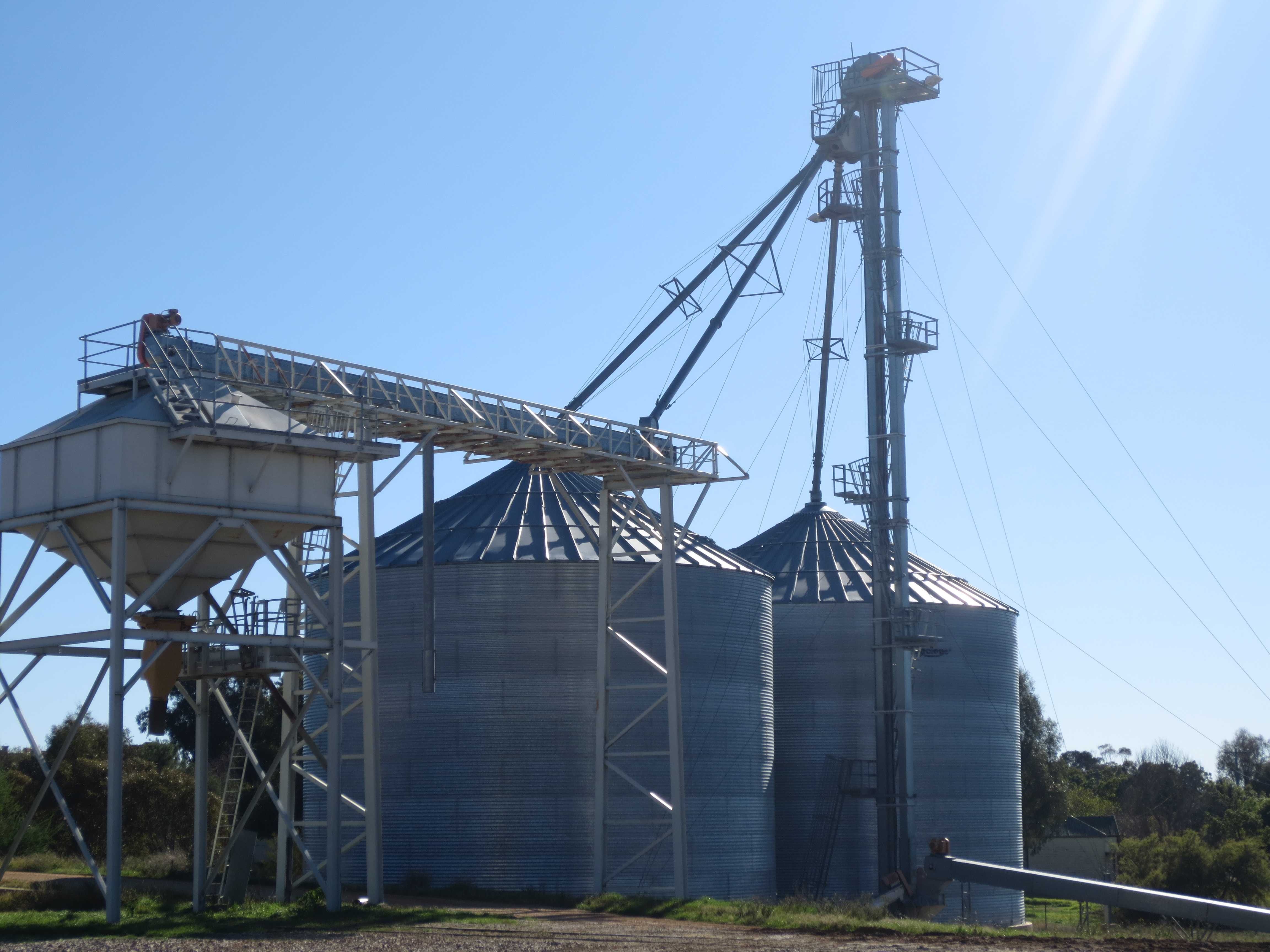 Grain silos located in Galong, Australia grain can be loaded and unload by road vehicles and loaded to train but no longer in use for train. Location Galong Railway Station, Australia.